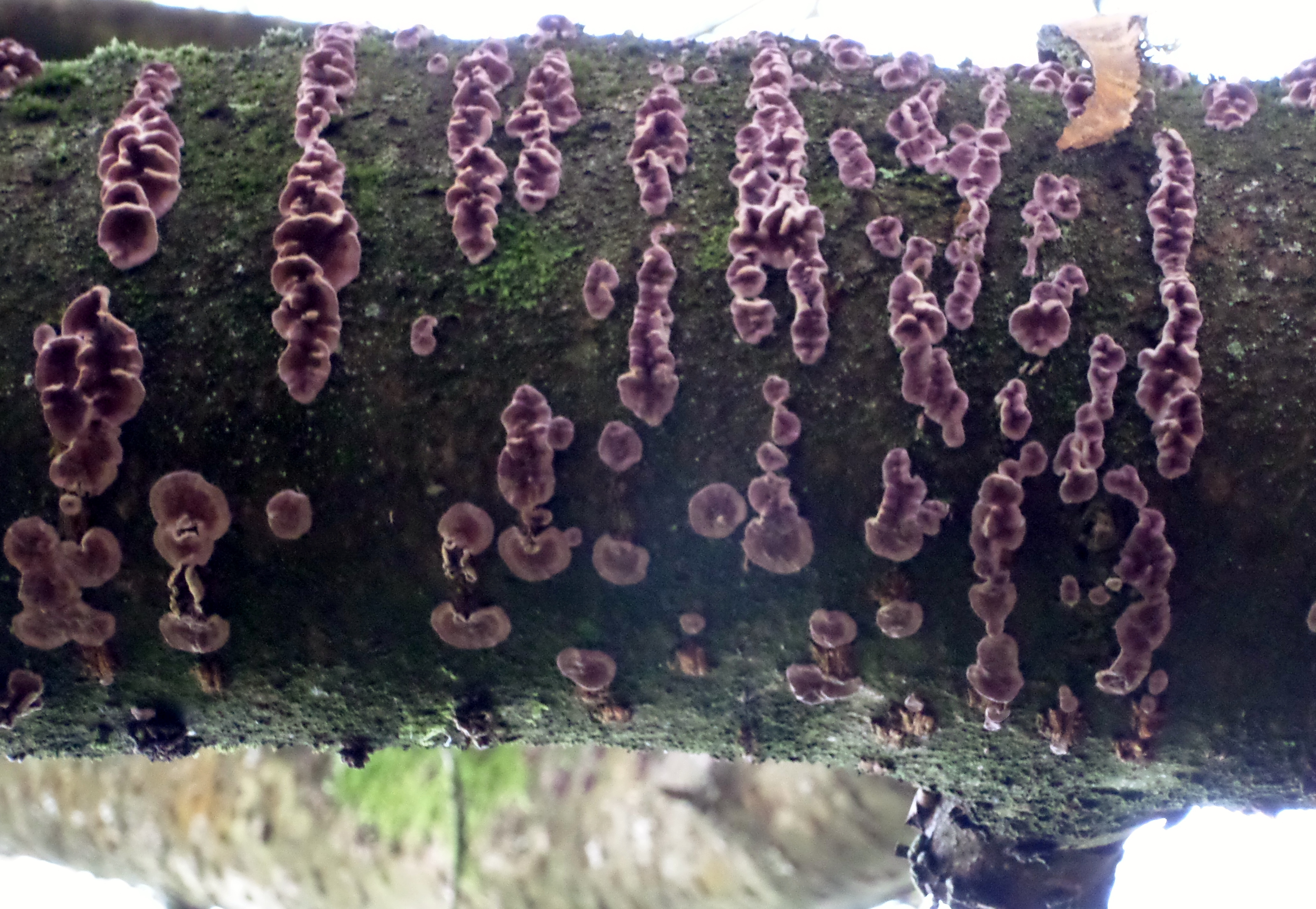 Chondrostereum purpureum bracket, Silver Leaf fungus growing through lenticels on a Flowering Cherry in Kirktonhall Glen, West Kilbride